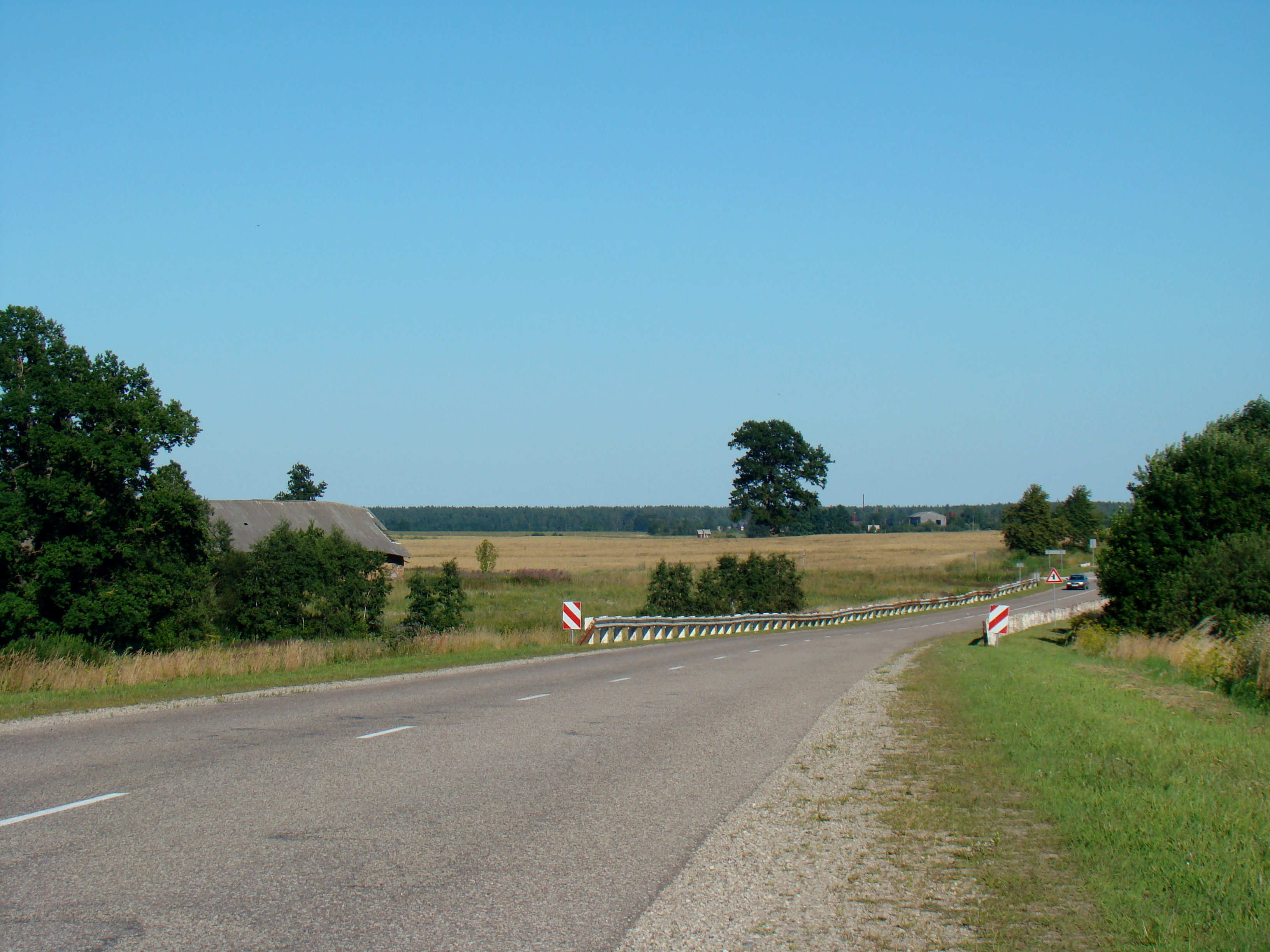 Road P128 near Mazsēņi